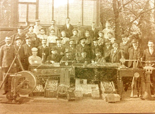 Management and employees of Lugansk Cartridge Works, 1912